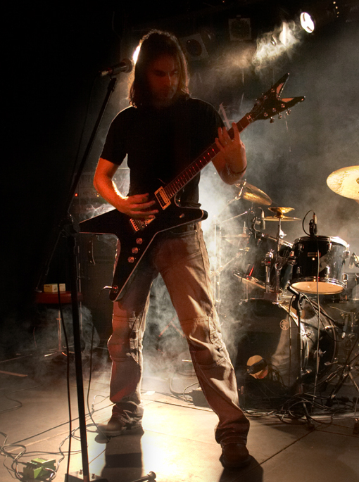 Grimlord in Progresja "Warsaw"